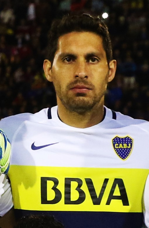 Juan Manuel Insaurralde